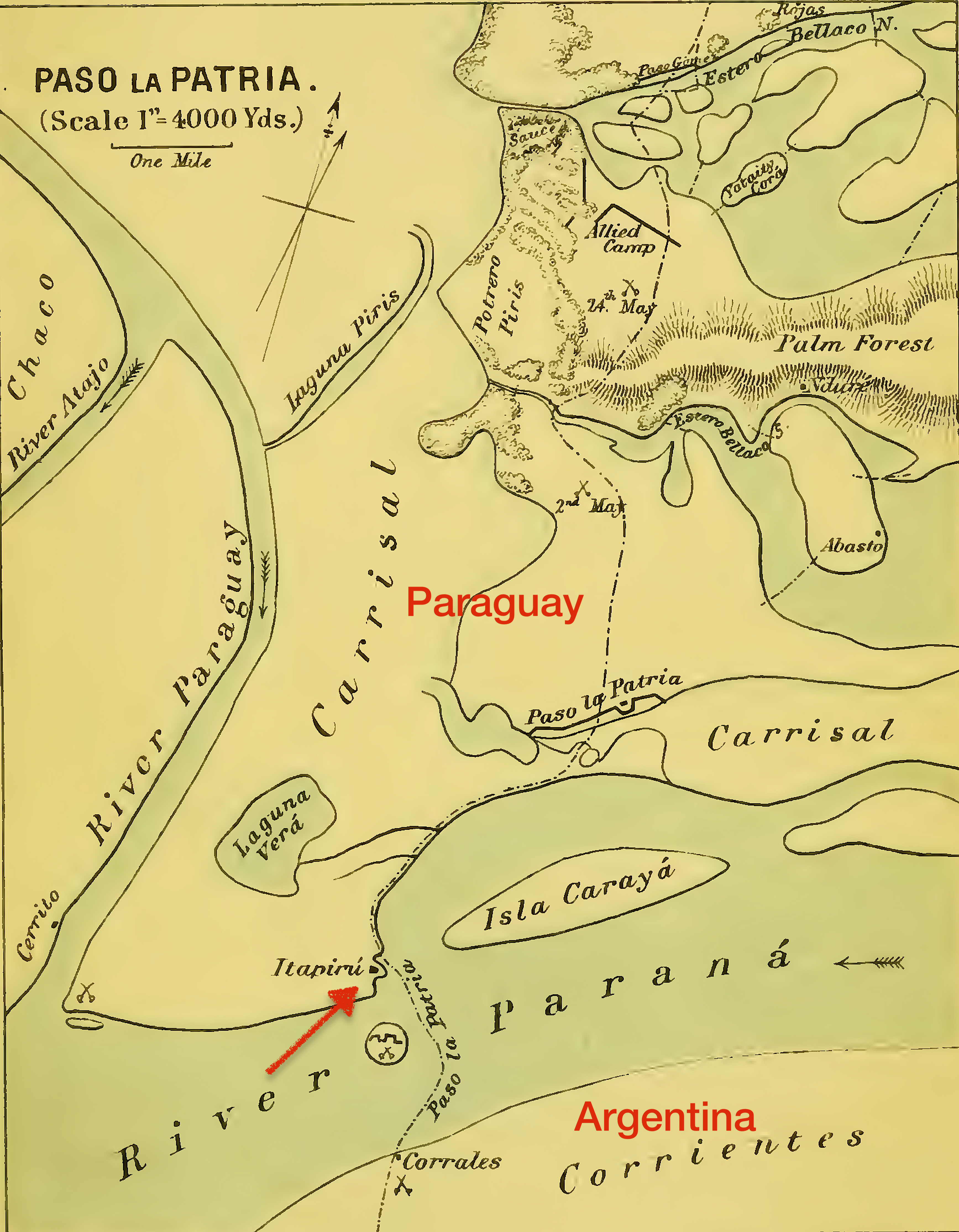 Map (George Thompson, "The War in Paraguay", 1869) showing the location of Fort Itapirú, which guarded the entrance to the channel behind Carayá island. Most of the Paraguayan coastline was too swampy to invade, but an exception occurred at Paso de Patria where there was a firm beach where a landing could be made.